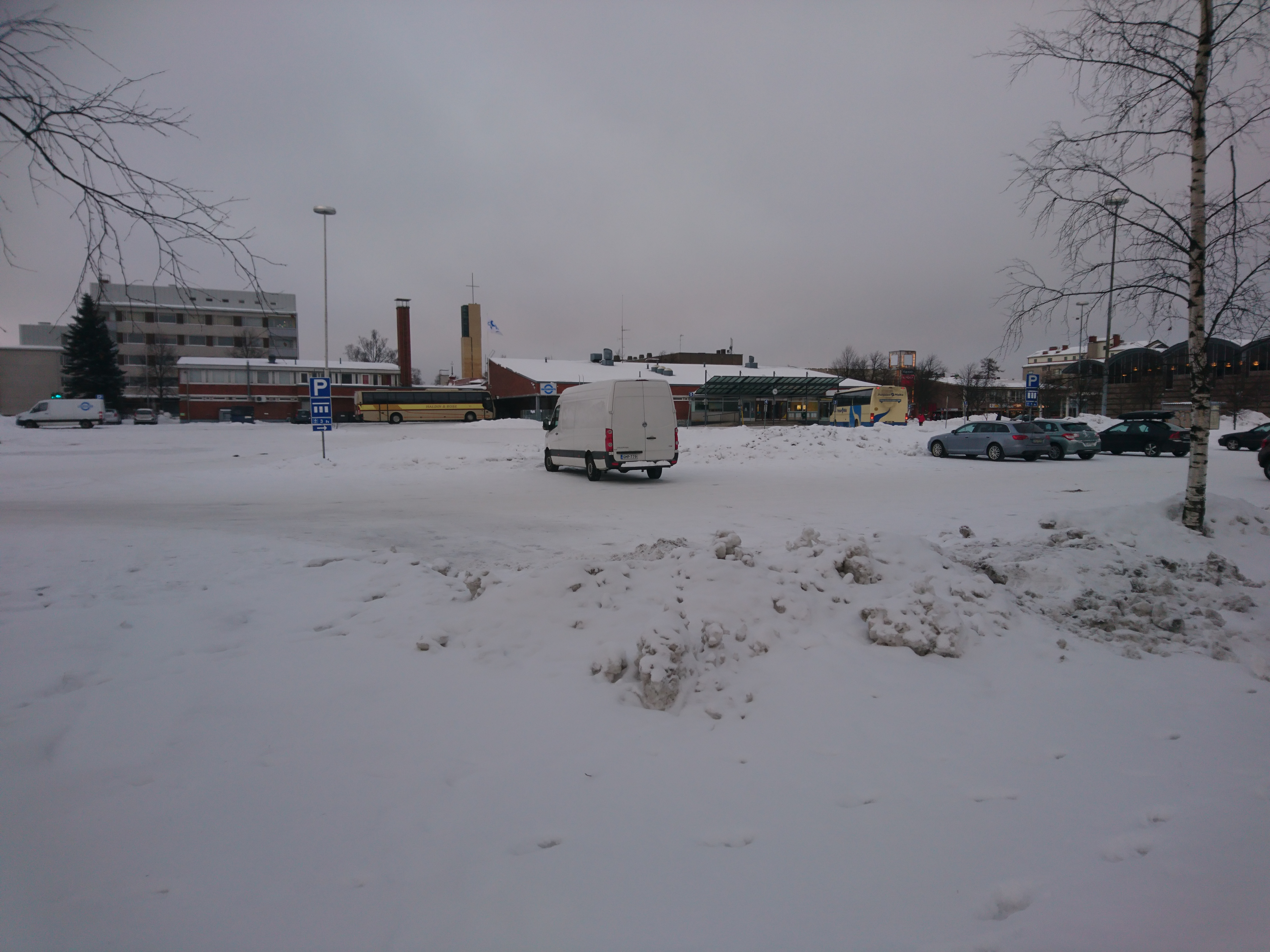 Kokkola bus station in Kokkola, Finland on February 2018.